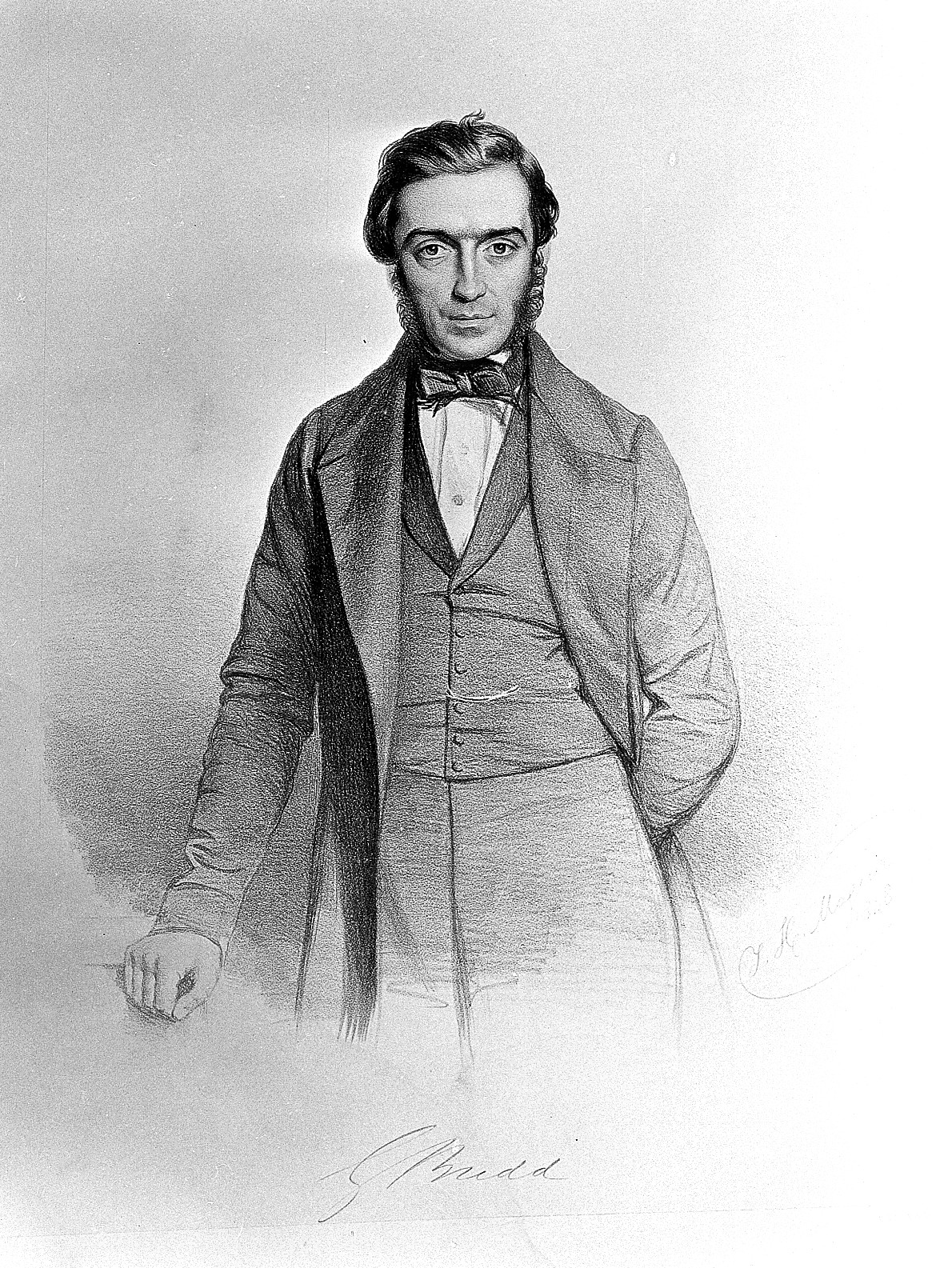 Portrait of George Budd. Iconographic Collections Keywords: George Budd; T.H. Maguire